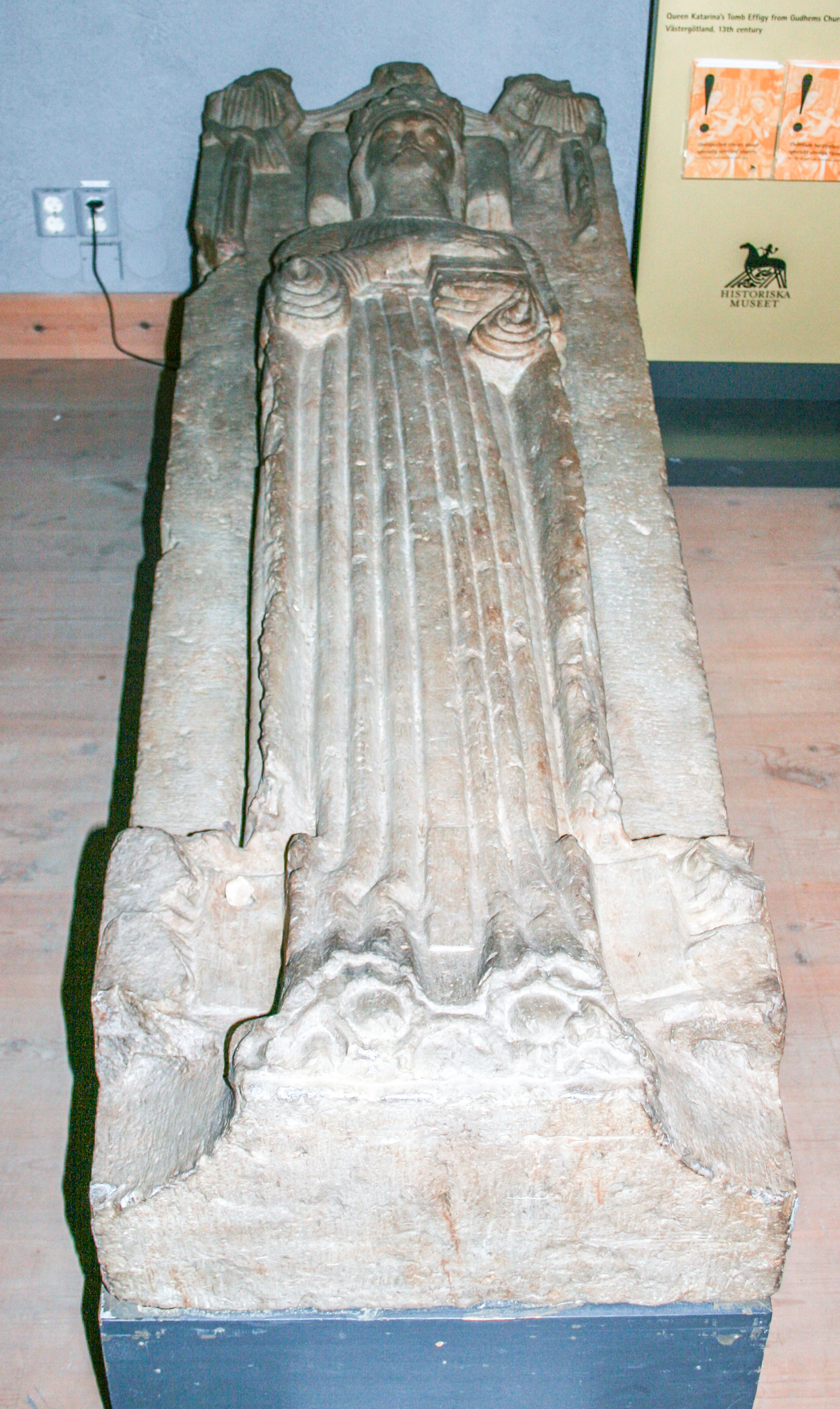 Tombstone of Queen Catherine of Sweden